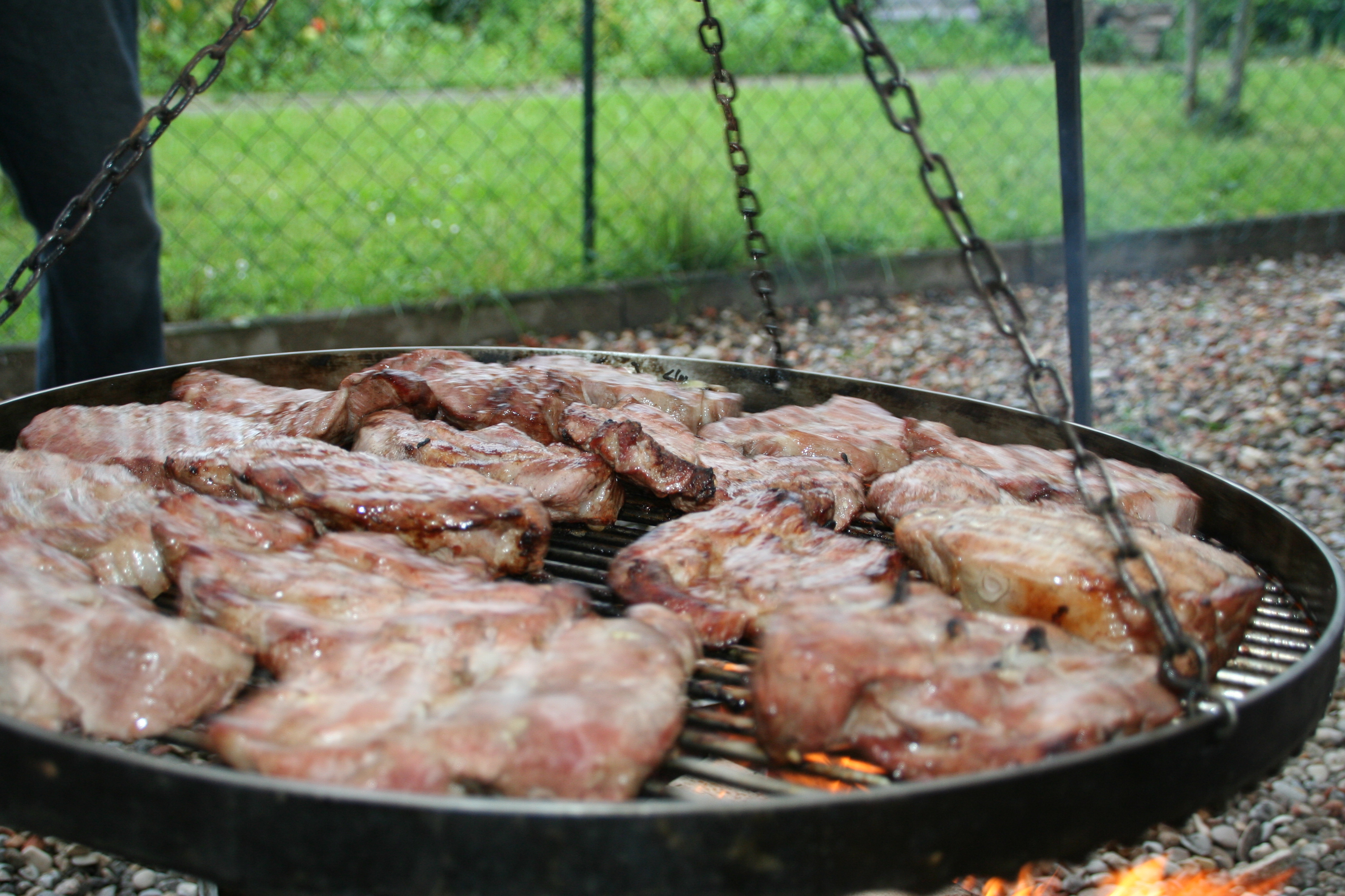 A delicacy from Idar-Oberstein: "Idarer Spießbraten"